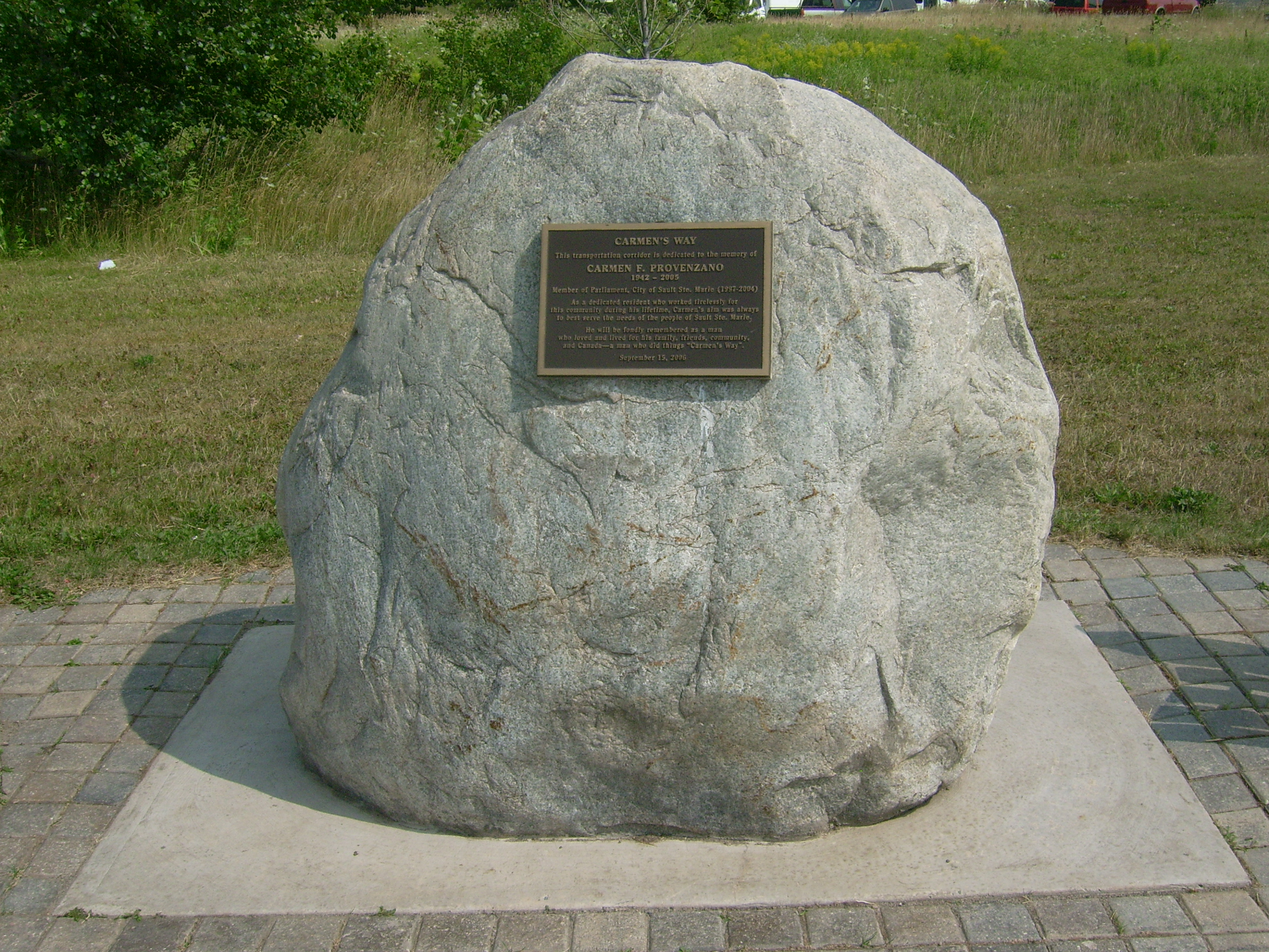 HUB Trail Carmen Provenzano memorial, Sault Ste. Marie, Ontario.